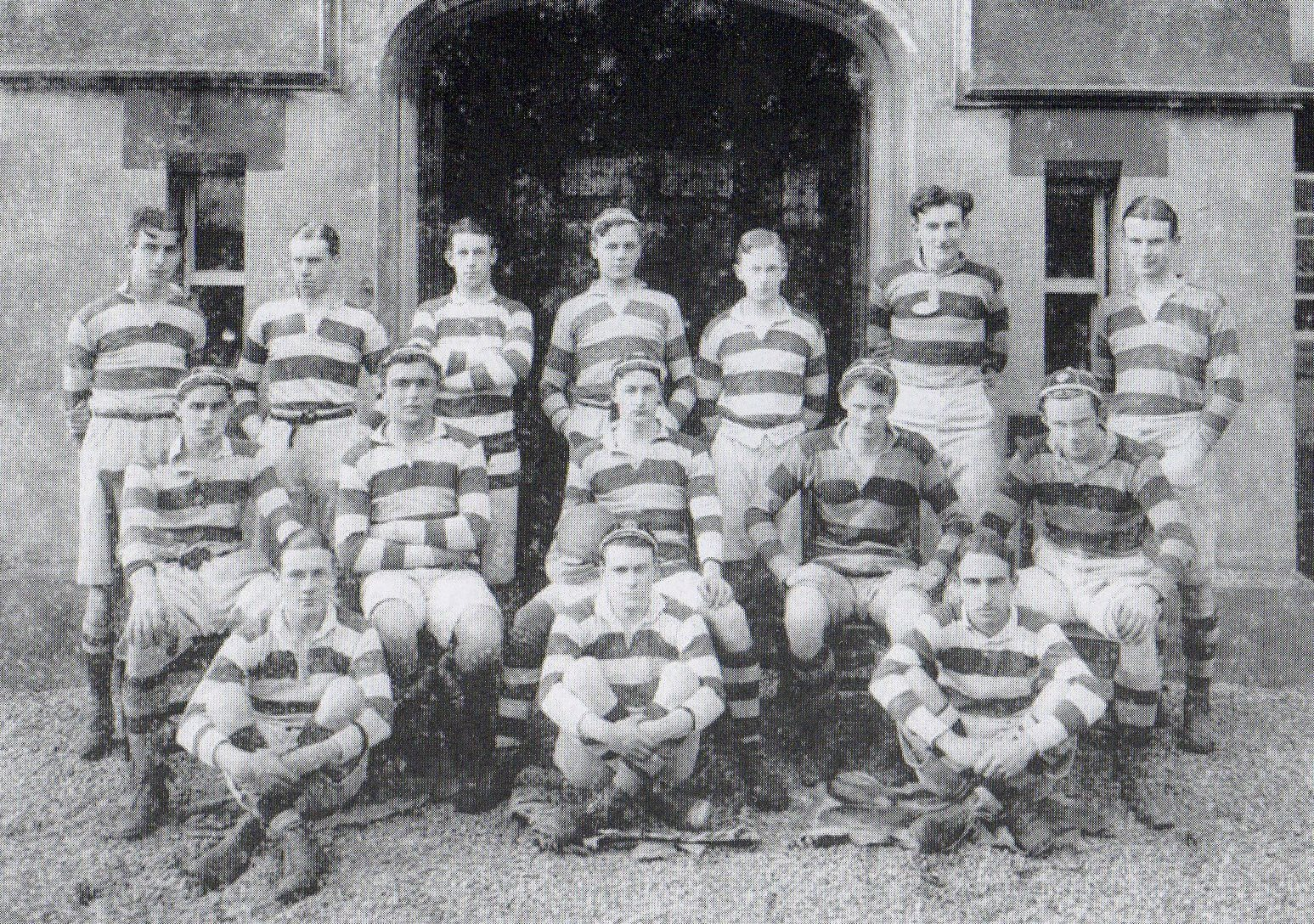 Agricultural College Photograph